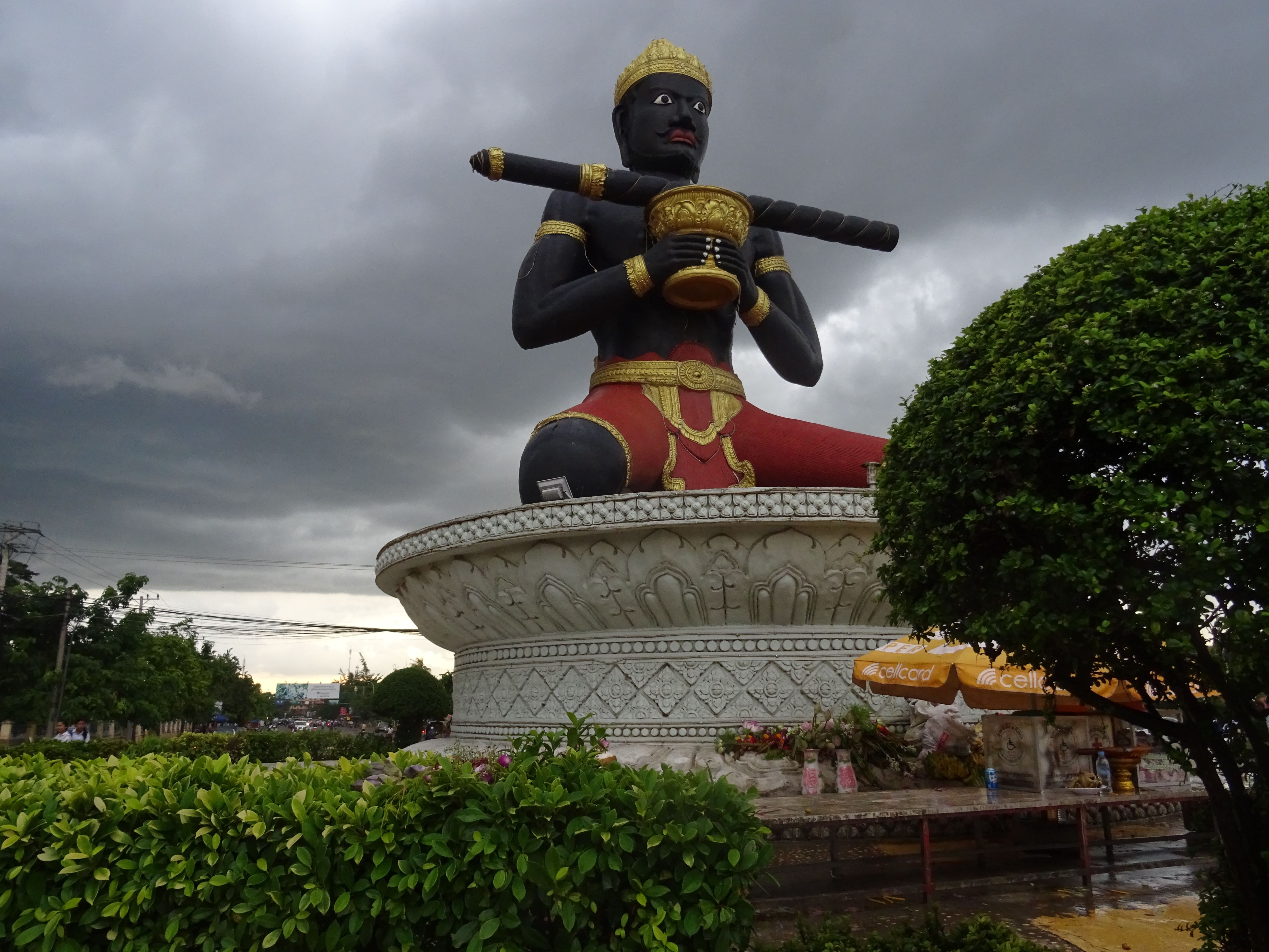 Ta Dumbong statue in Battambang.